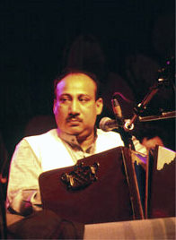 Ustad Farrukh Fateh Ali Khan Saheb